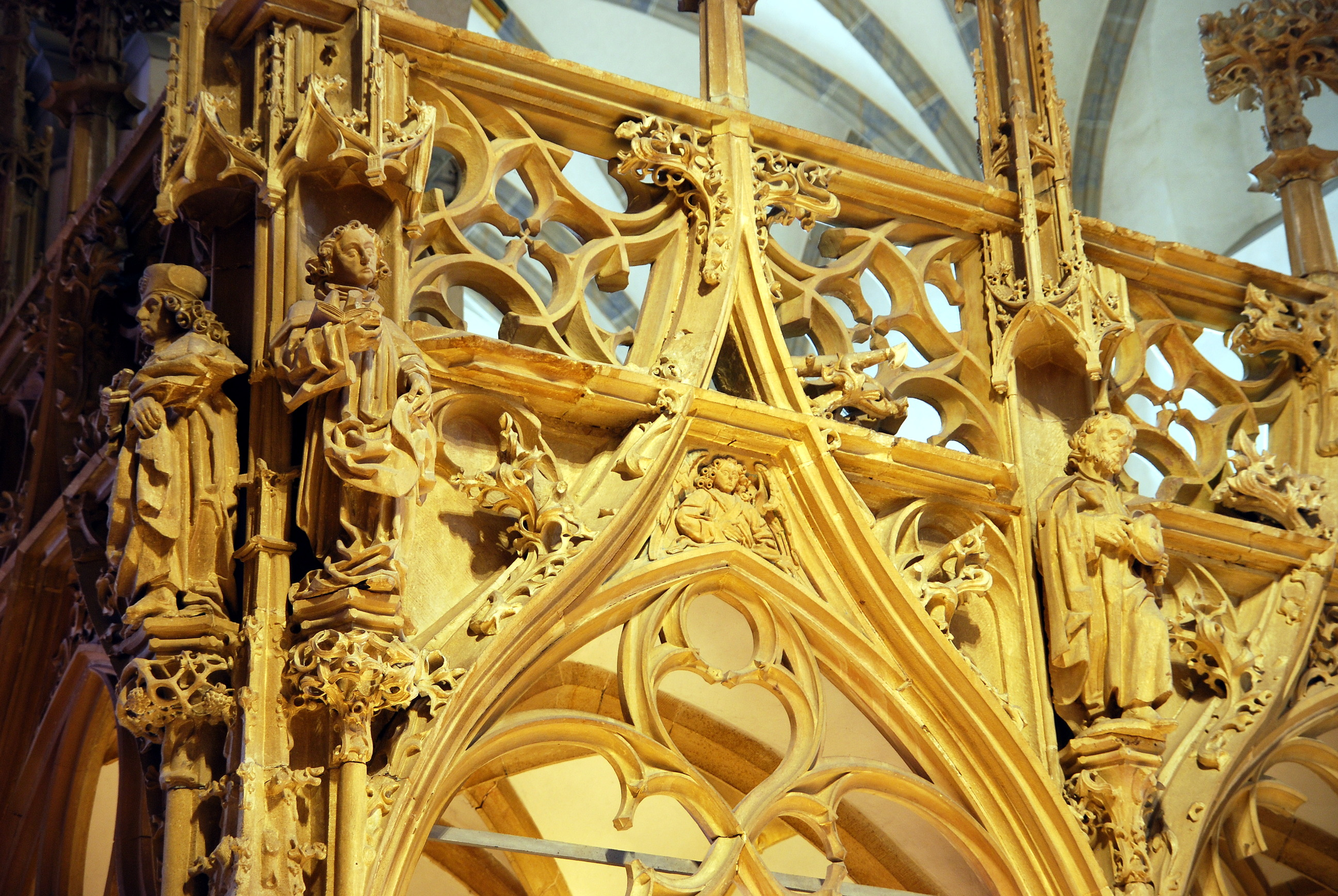 Breisach Minster rood screen detail.